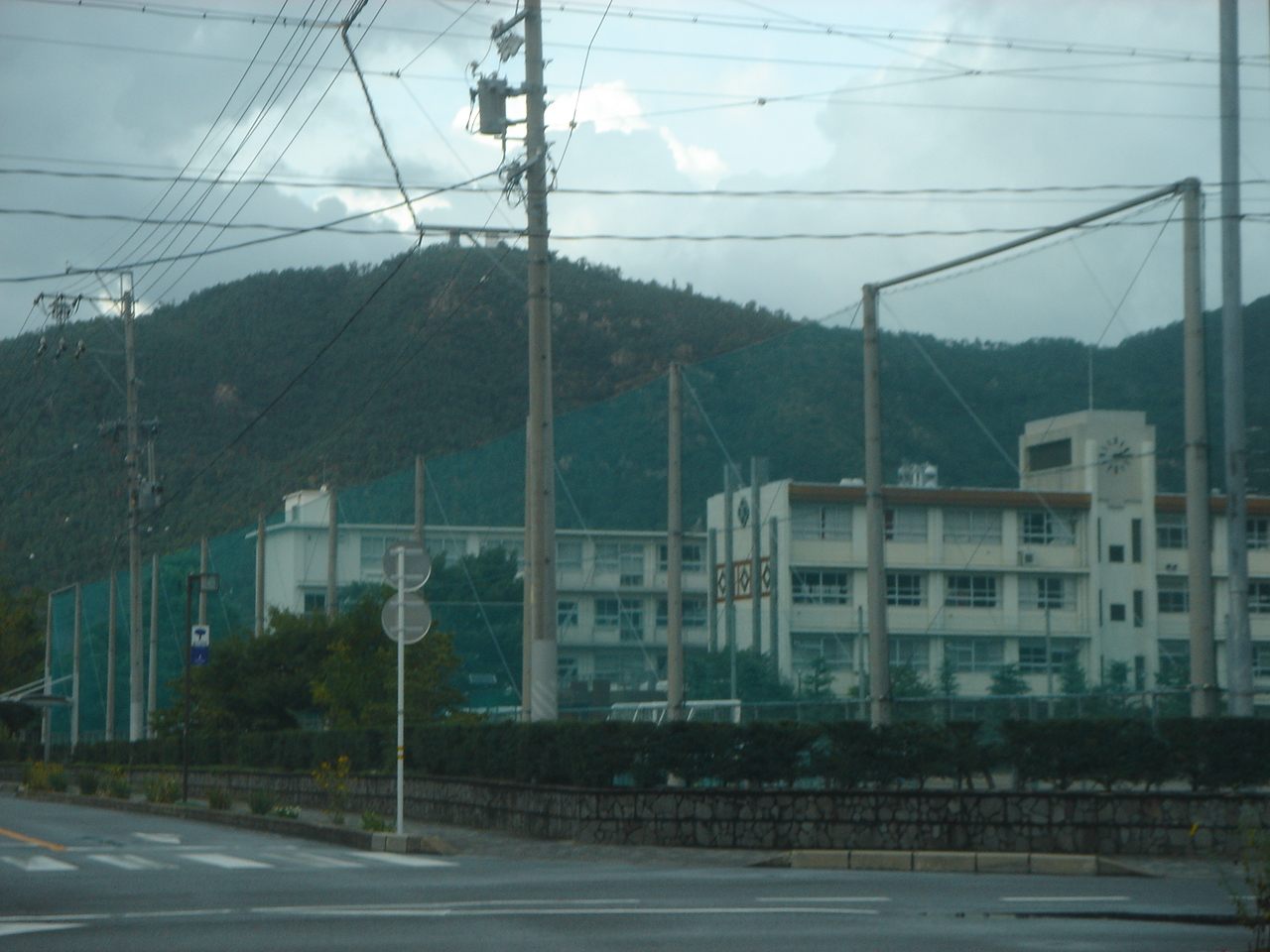 Nagara High school in Gifu Pref.（岐阜県立長良高等学校）,Gifu,Gifu,Japan(岐阜県岐阜市)で撮影。